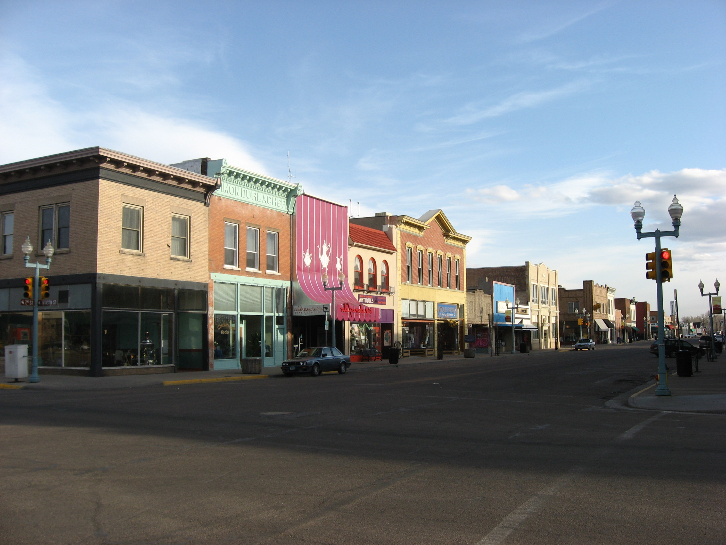 Southeastern corner of the intersection of Second Street and Ivinson Avenue in downtown Laramie, Wyoming, United States. This intersection is located in the heart of the Laramie Downtown Historic District, which is listed on the National Register of Historic Places.